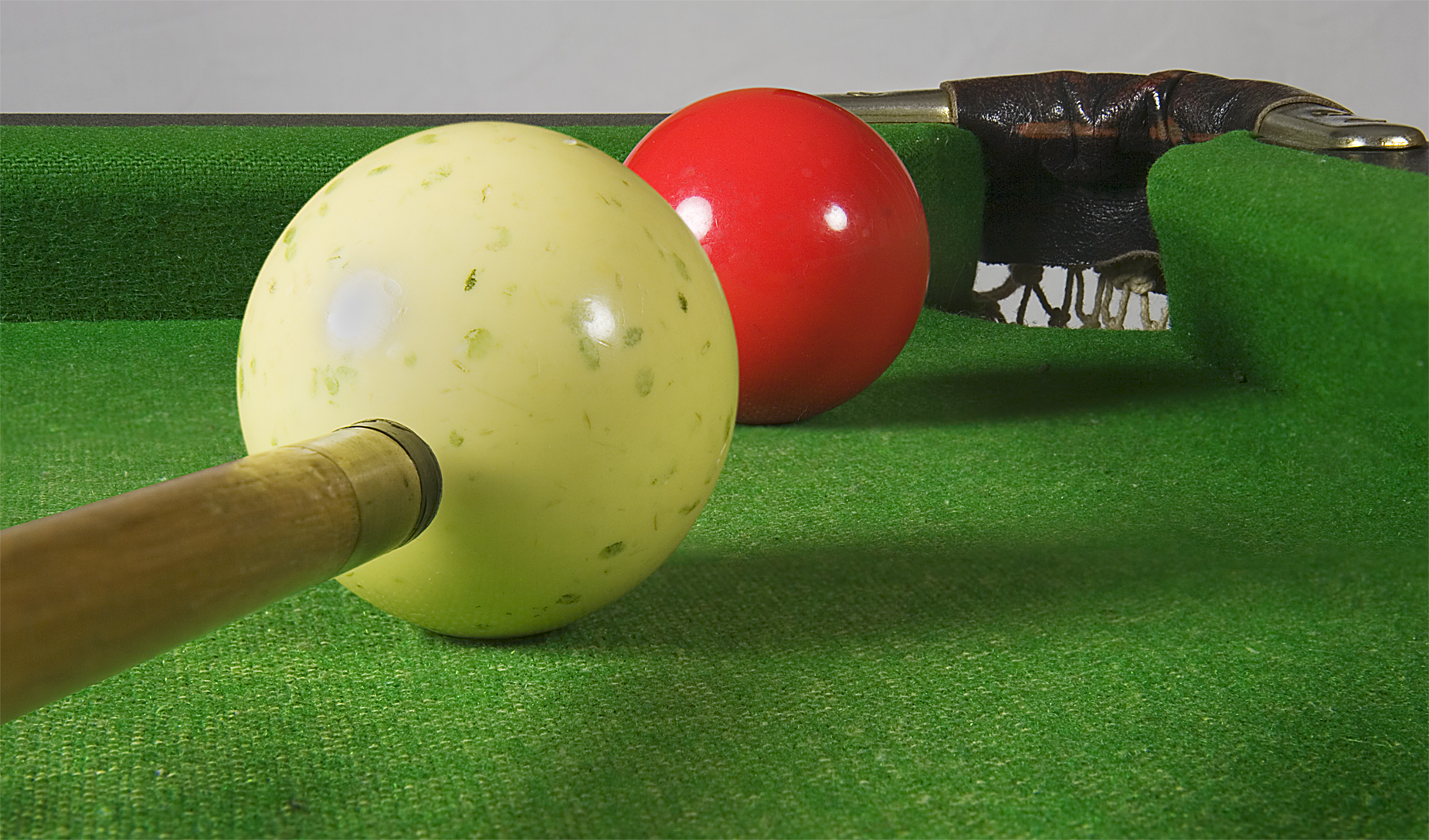 A game of snooker (or billiards) in progress. The game is being played on a half-size table.